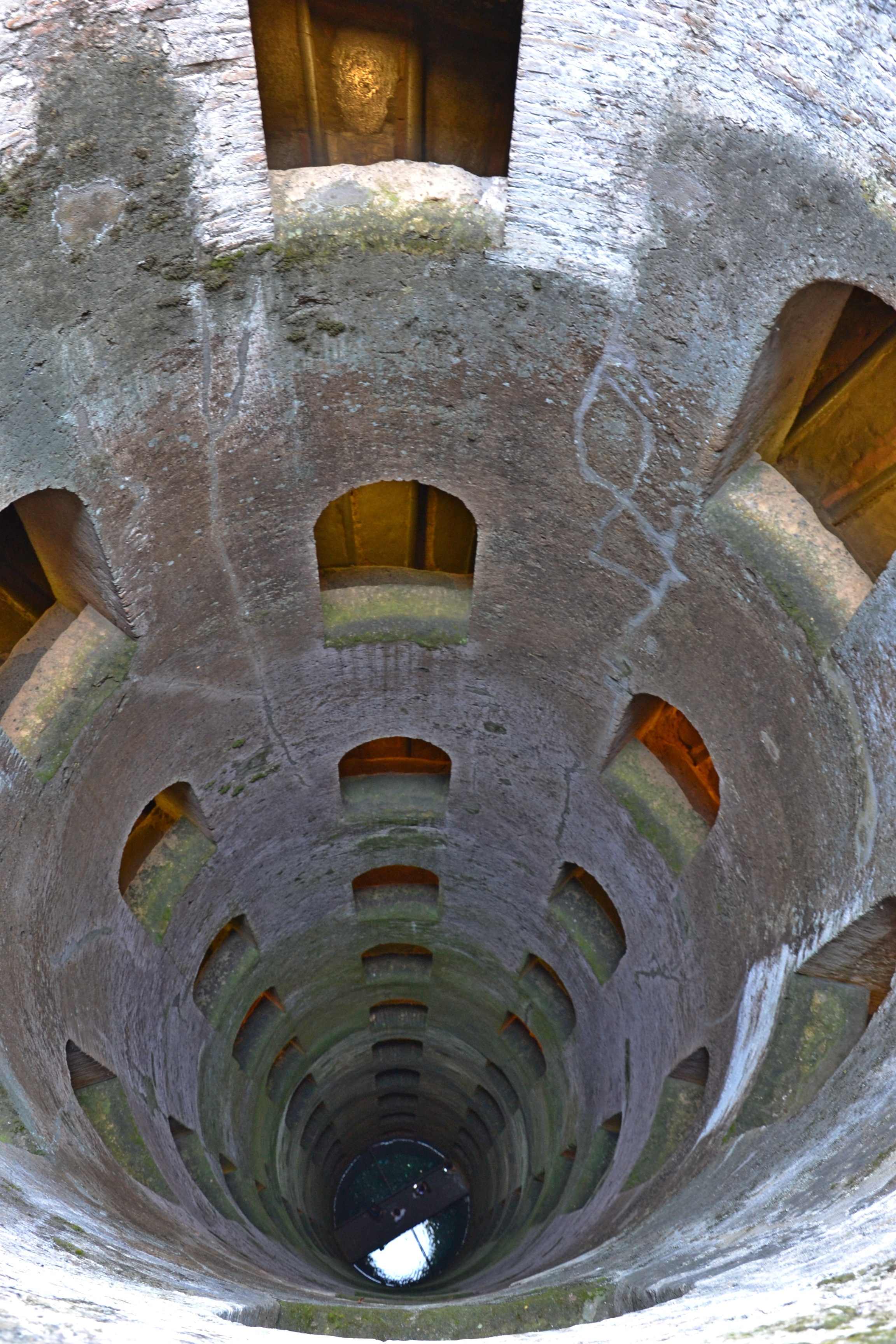 Fountain Pozzo di San Patrizio, Orvieto, Umbrien, Italien